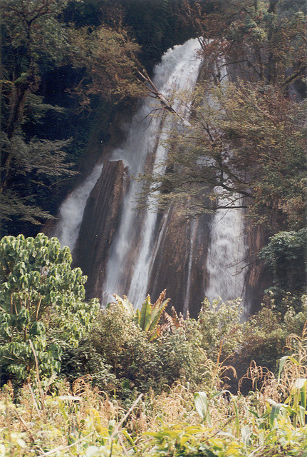 Waterfall near San Juan Cotzal, Guatemala.